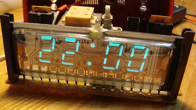 Vacuum fluorescent display inside Soviet made electronic clock